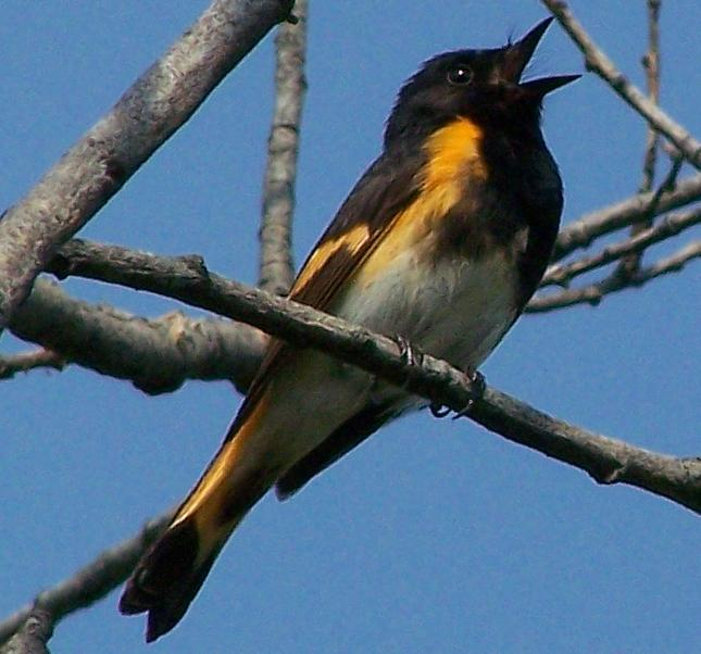 Male American Redstart singing.